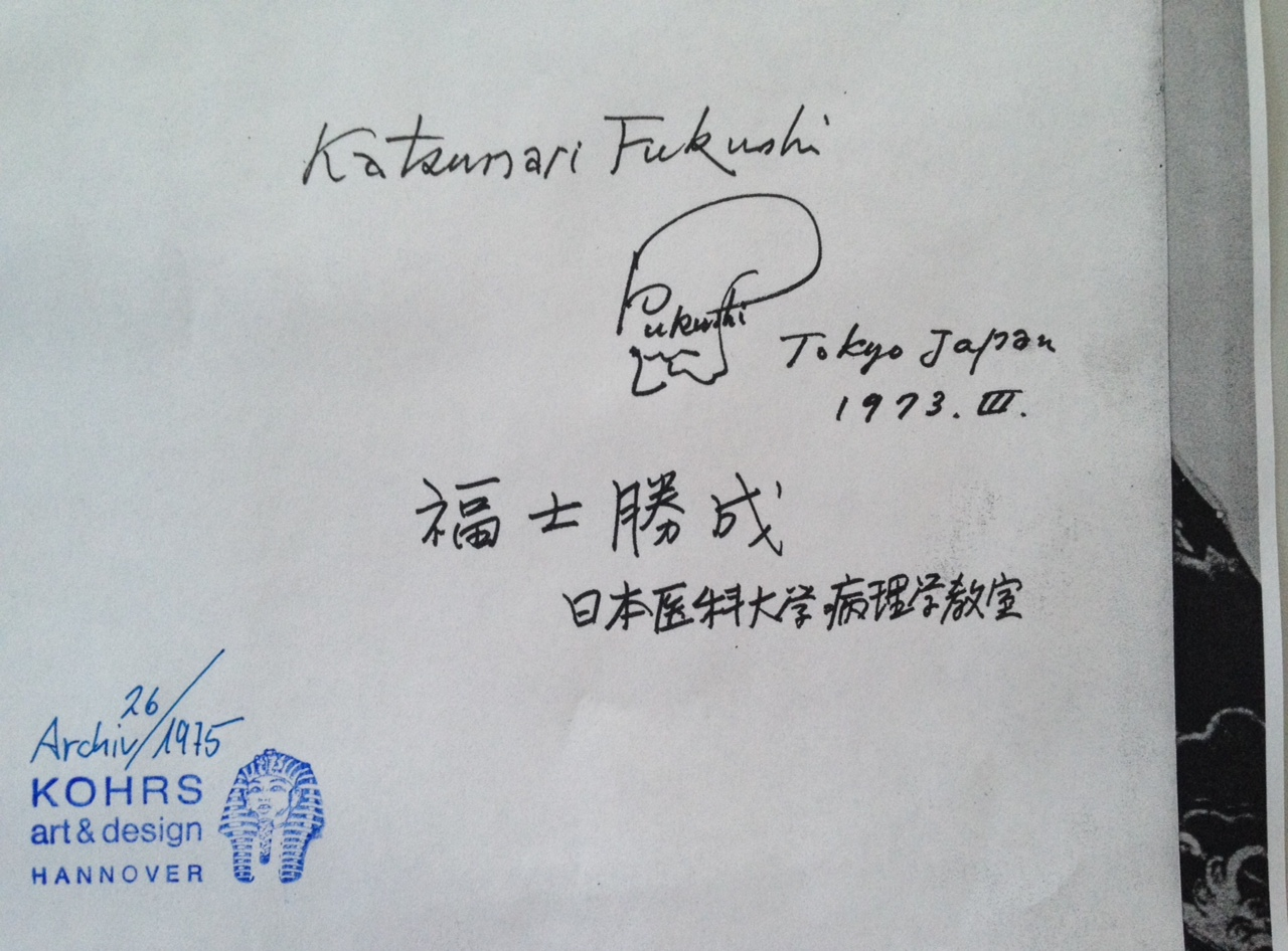 Signature Dr Katsunari Fukushi - Archiv Manfred Kohrs 1975